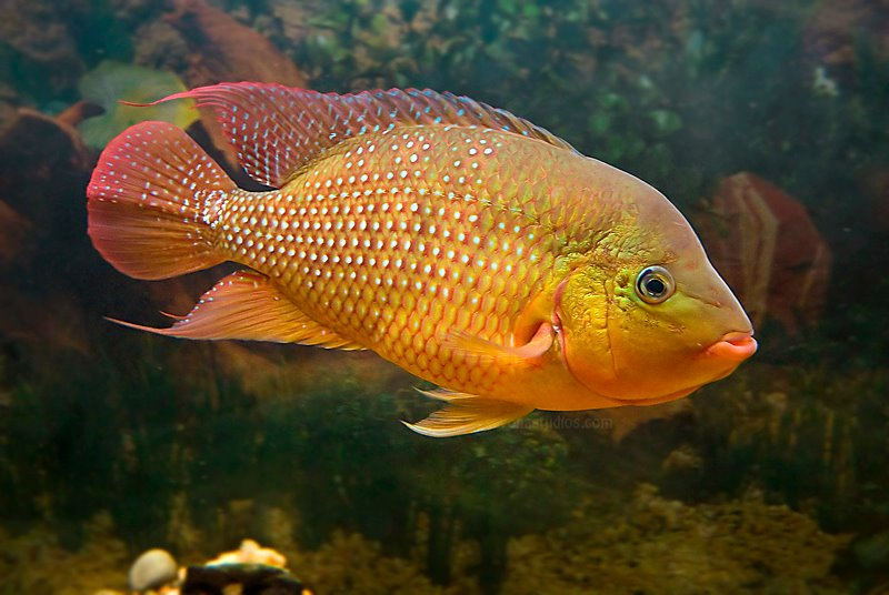 Red Terrors, like their name suggests, are a highly aggressive cichlid commonly found in the rivers of Central America.